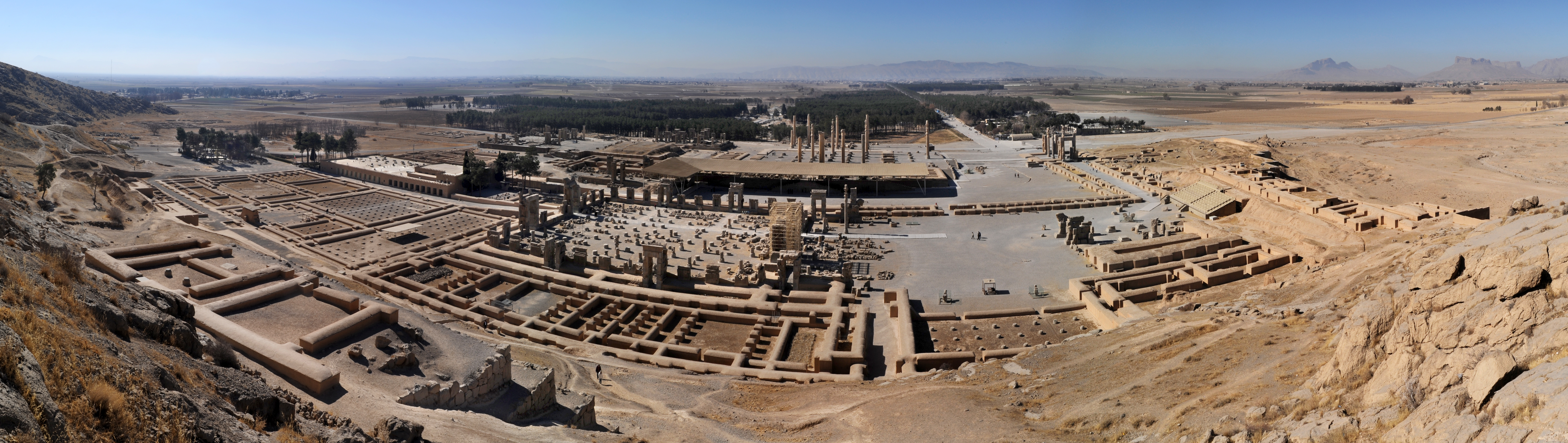 Persepolis panorama - Iran.